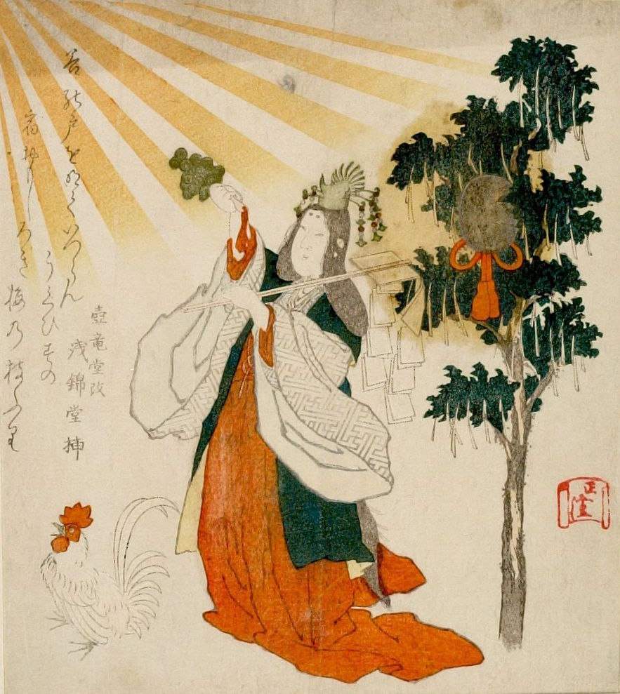 The Goddess Uzume with Rooster and Mirror, Harvard Art Museums